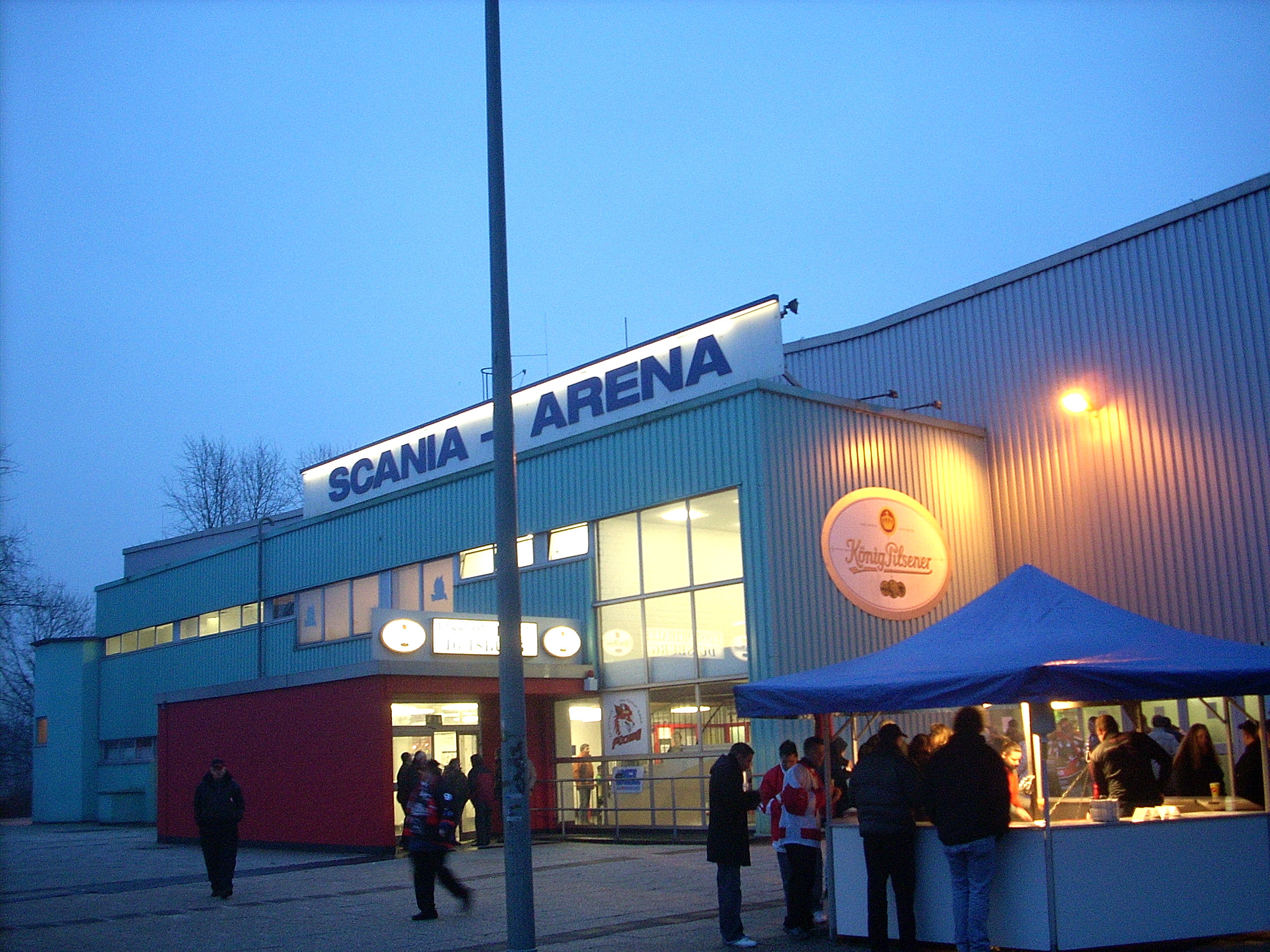 Ice rink “SCANIA-Arena” in Duisburg-Wedau